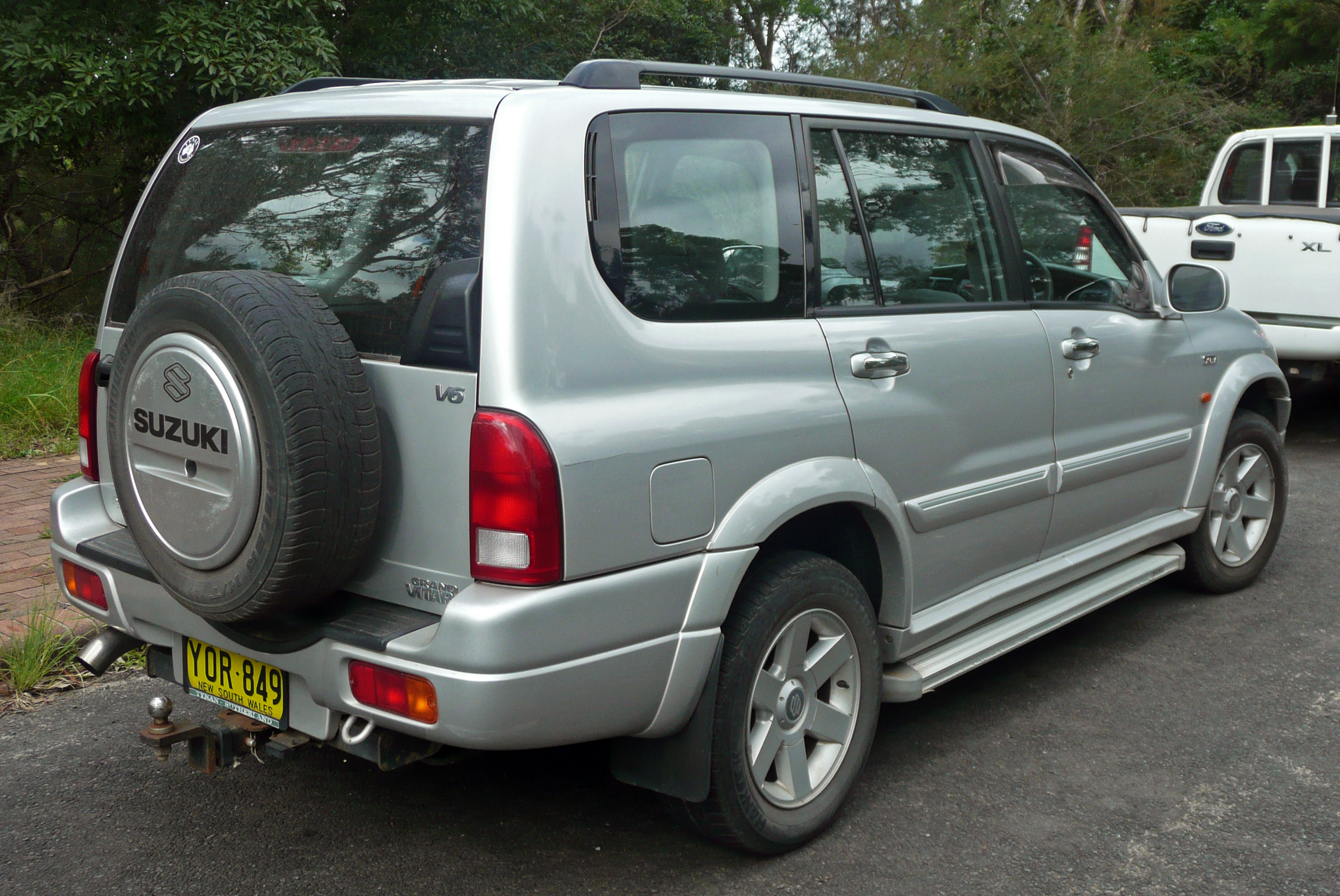 2001–2003 Suzuki Grand Vitara XL-7 (JA) wagon. Photographed in Audley, New South Wales, Australia.